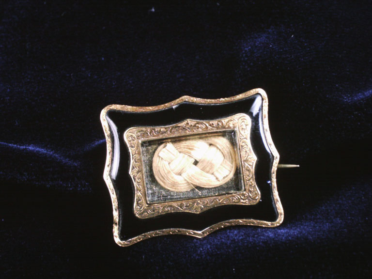 A hair brooch in the permanent collection of The Children’s Museum of Indianapolis